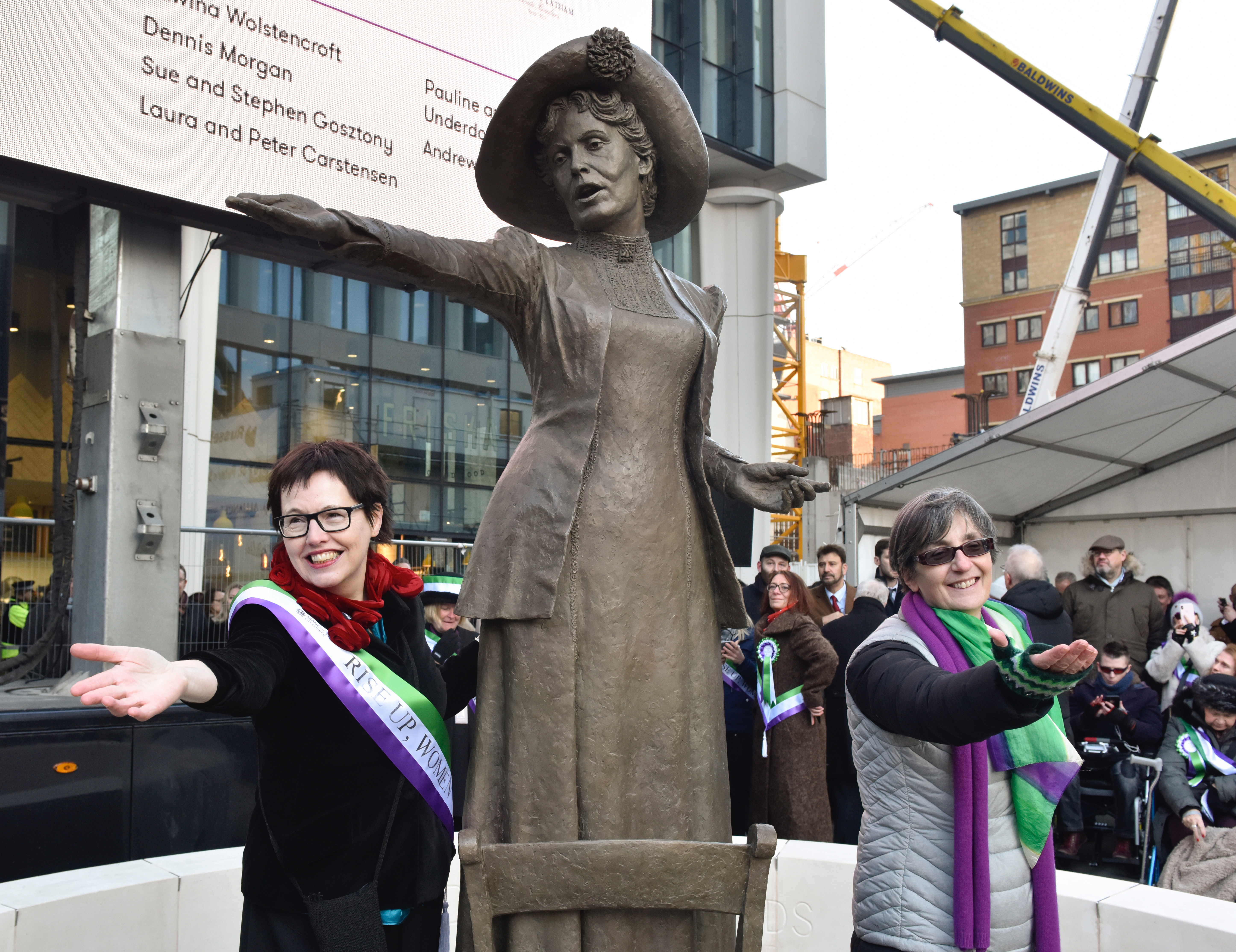 Hazel Reeves and Helen Pankhurst with Our Emmeline at the unveiling, 2018